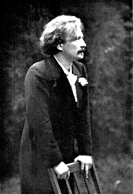 Ignacy Jan Paderewski